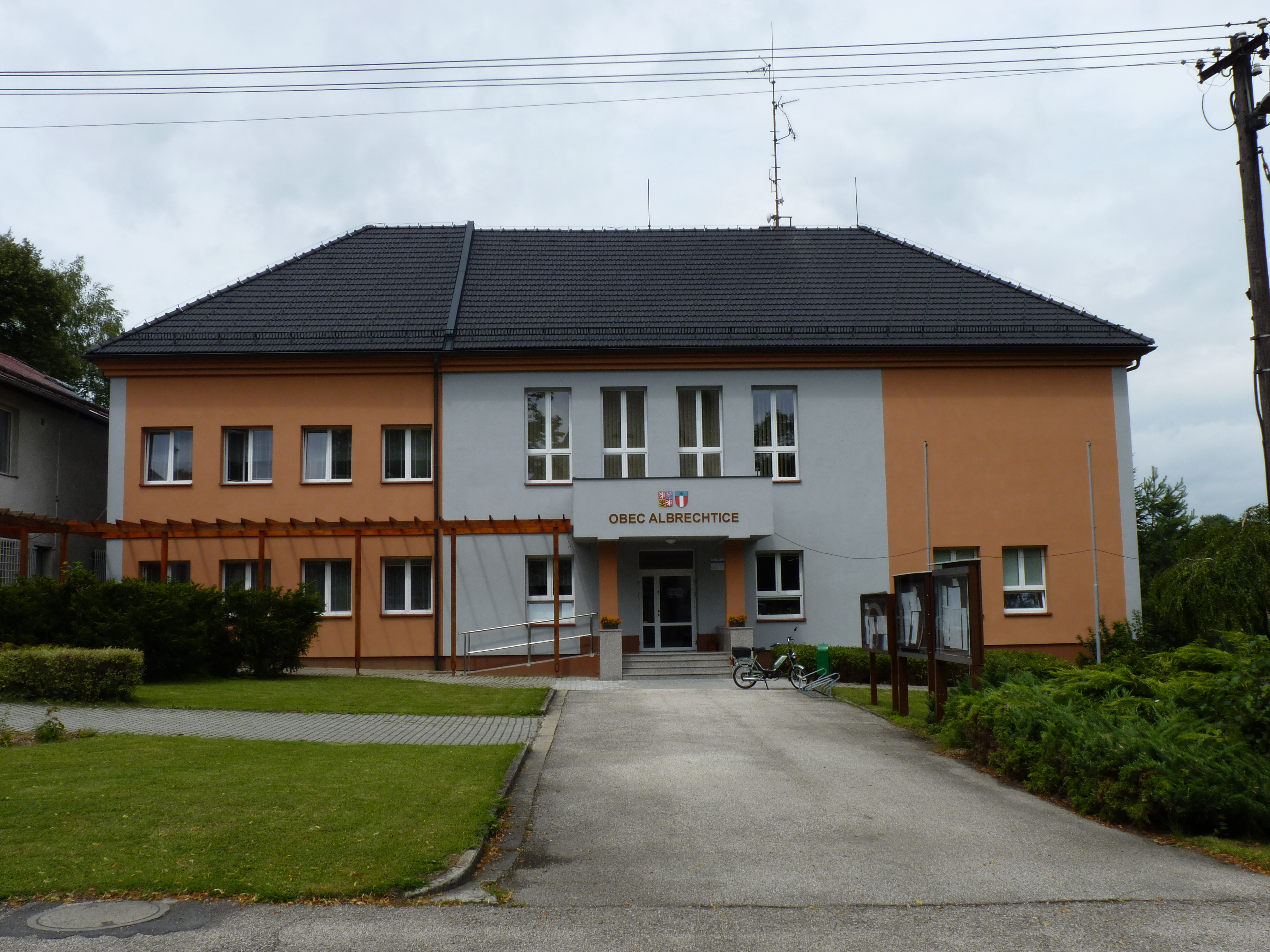 Townhall. Albrechtice, Karviná District, Moravian-Silesian Region, Czech Republic